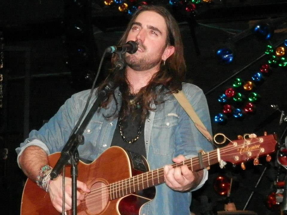 Spanish Sing-songwriter.